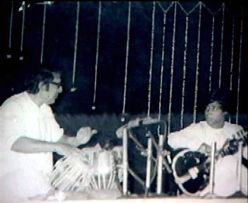 Ustad Shahid Parvez Khan being accompanied by Pandit Shamta Prasad